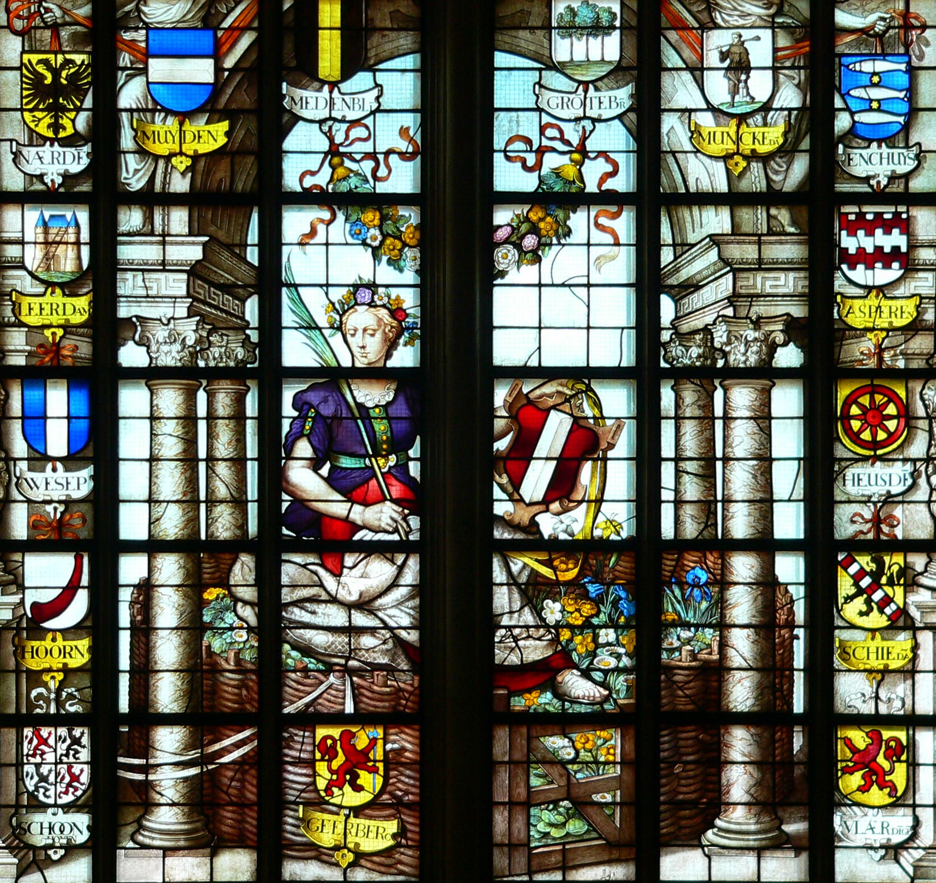 The stained-glass window number 3 (detail), the Dordrecht gift in the Sint Janskerk at Gouda/Netherlands: showing "The maiden of Dordrecht". Designer Gerrit Gerritsz Cuyp of Dordrecht (the grandfather of Albert Cuyp, the landscape painter. She is surrounded by the heraldic shields of 15 cities: (clockwise from Geertruidenberg, the city shield on the "gate" of the garden): Geertruidenberg, followed by Schoonhoven, Hoorn, Weesp, Leerdam, Naarden, Muiden, Medemblik, Grootebroek, Monnickendam, Enkhuizen, Asperen, Heusden, Schiedam, and Vlaardingen.